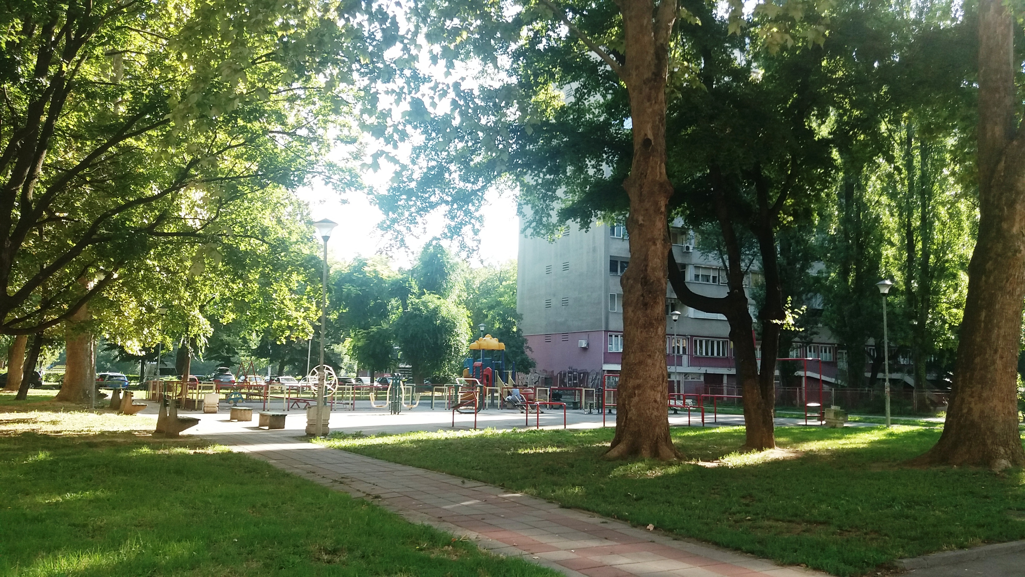 Children's playground, block 3, New Belgrade